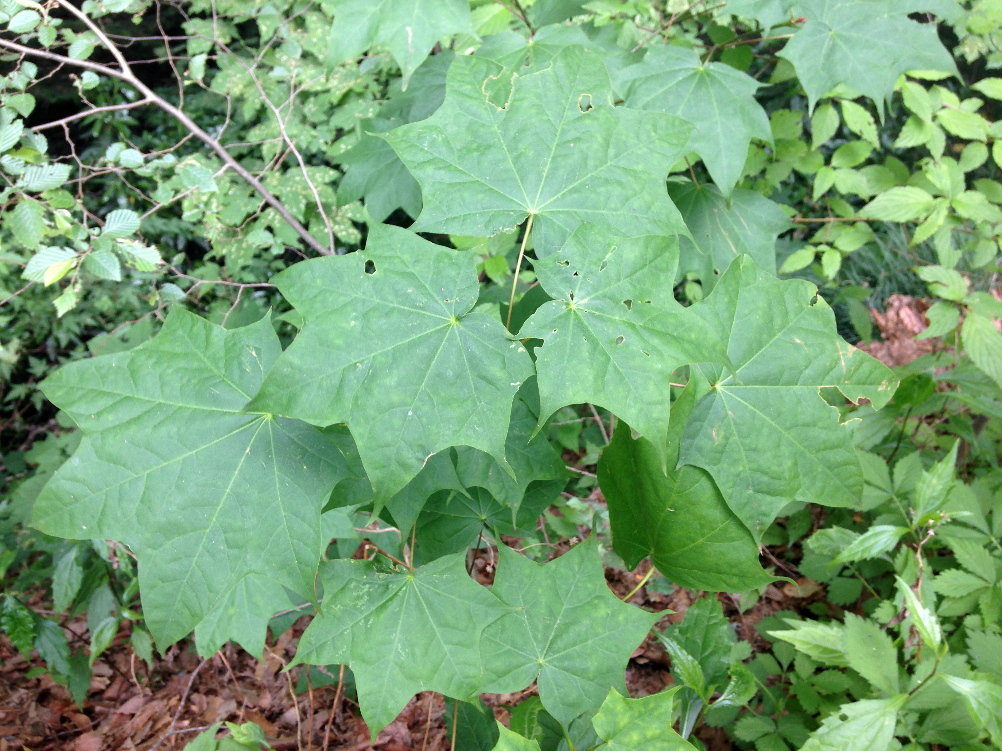 Seedling of Acer pictum, in deciduous forest near summit of Mount Takao, Hachiōji, Tokyo, Japan.